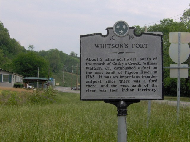 Tennessee State Historical Marker recalling the site of Whitson's Fort, near Cosby, Tennessee.